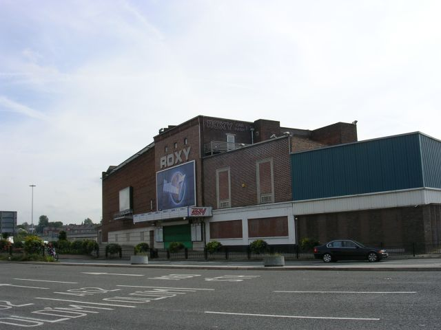 A landmark cinema at Hollinwood, Oldham, Greater Manchester, England. Close to the M60 motorway. Demolished in 2007.